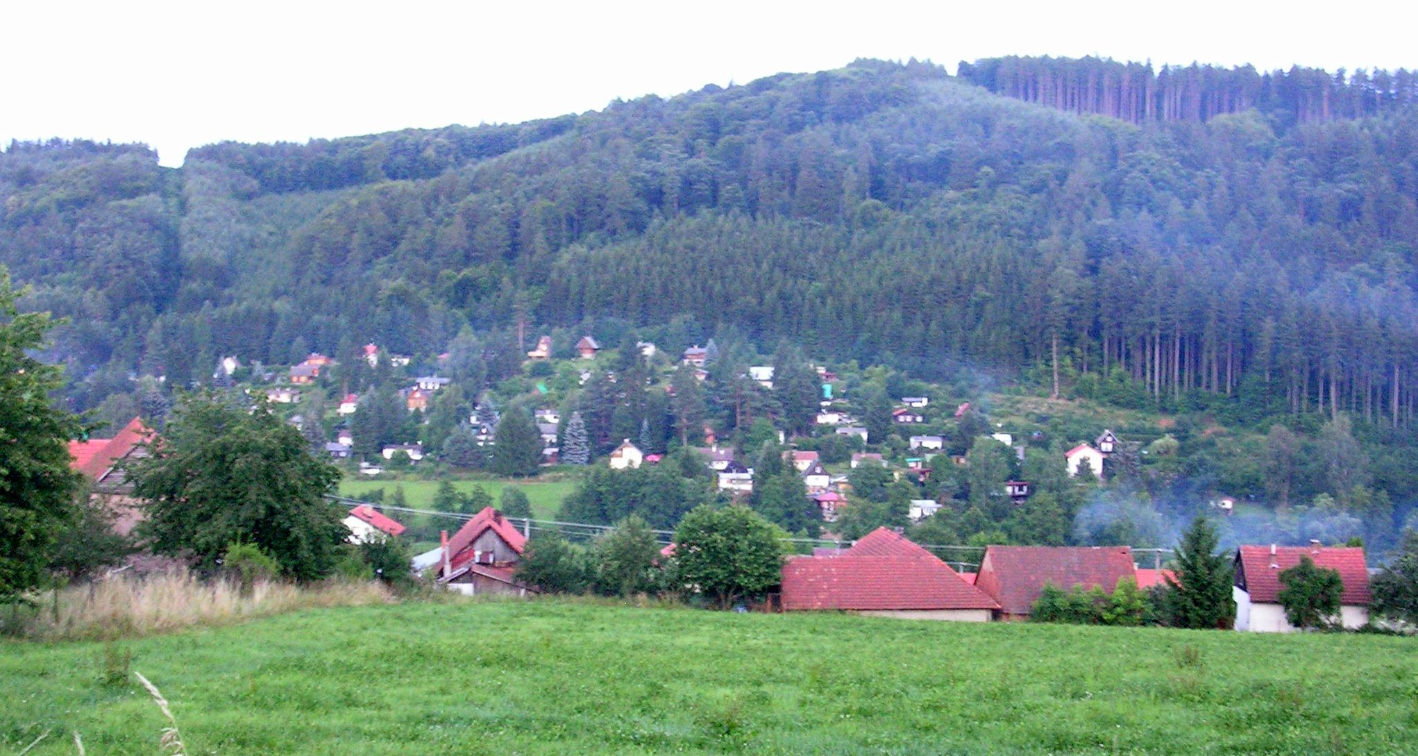 Vlkančice, Central Bohemian Region, the Czech Republic.